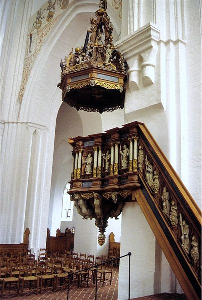 Haderslev Domkirke